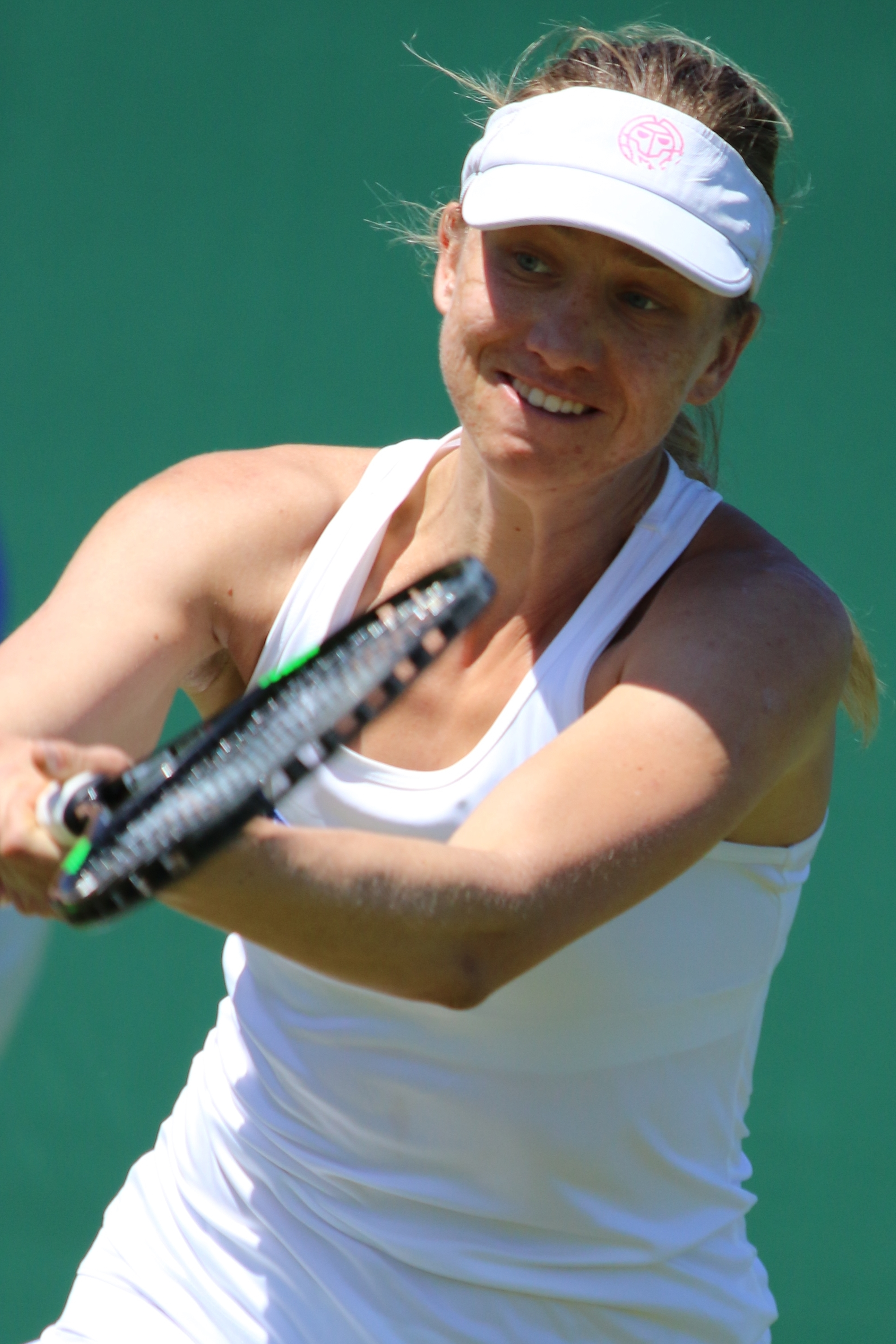 Barthel WM18 (22)